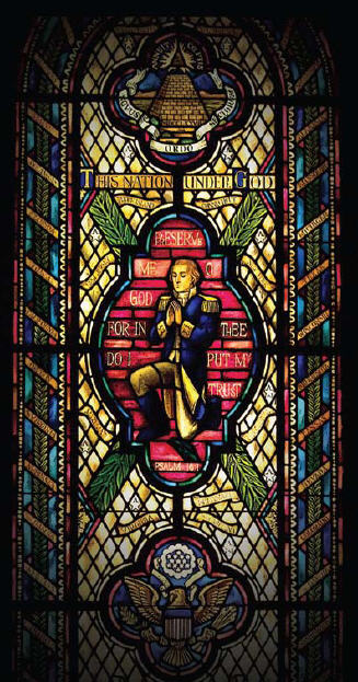 Image of the stained glass window, showing George Washington at prayer, located in the Capitol Prayer Room, U.S. Capitol, Washington, D.C.